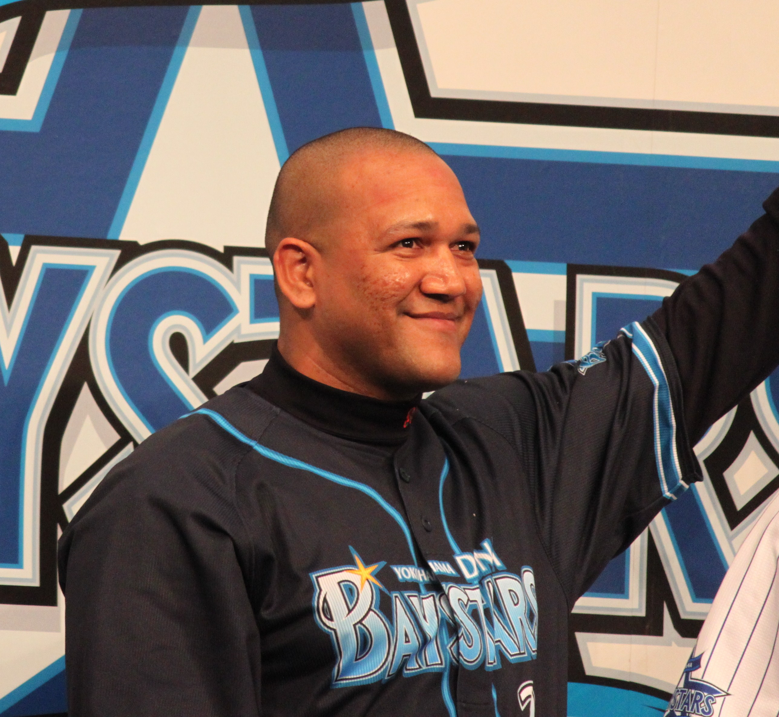 Alex Ramírez, outfielder of the Yokohama DeNA BayStars, at Queen's Square Yokohama.